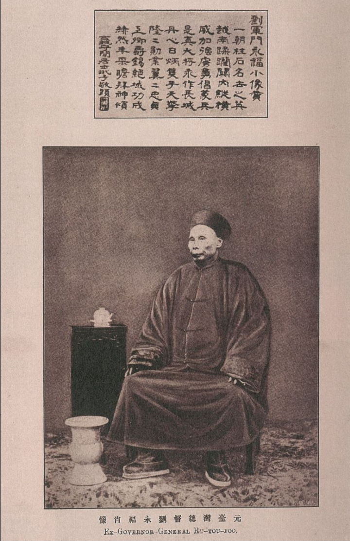 Liu Yong Fu, Chinese soldier of fortune and commander of the celebrated Black Flag Army, last leader of the short-lived Republic of Formosa.